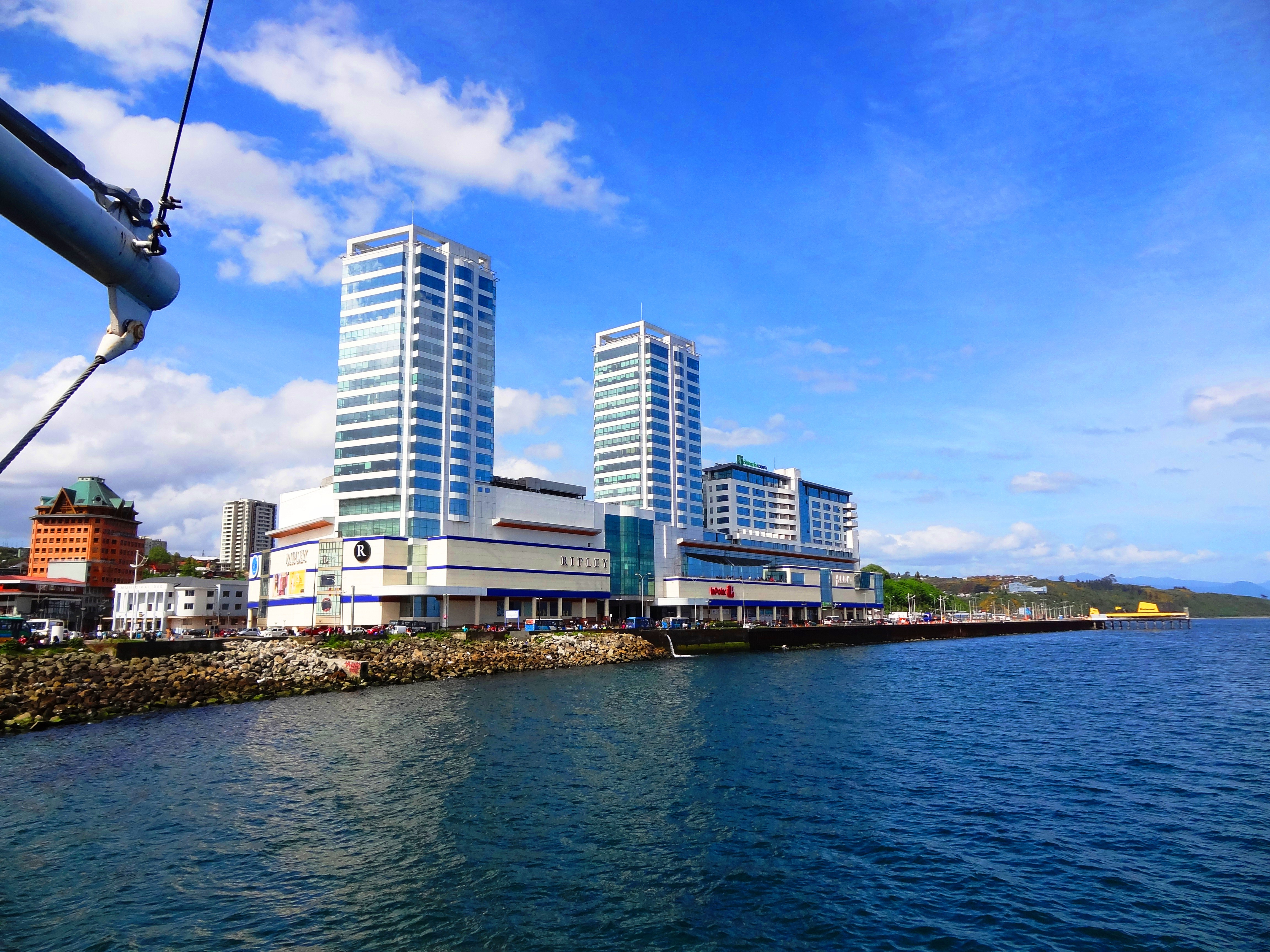 South American Hotel